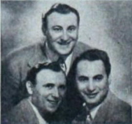 Three Suns in ad in Billboard magazine